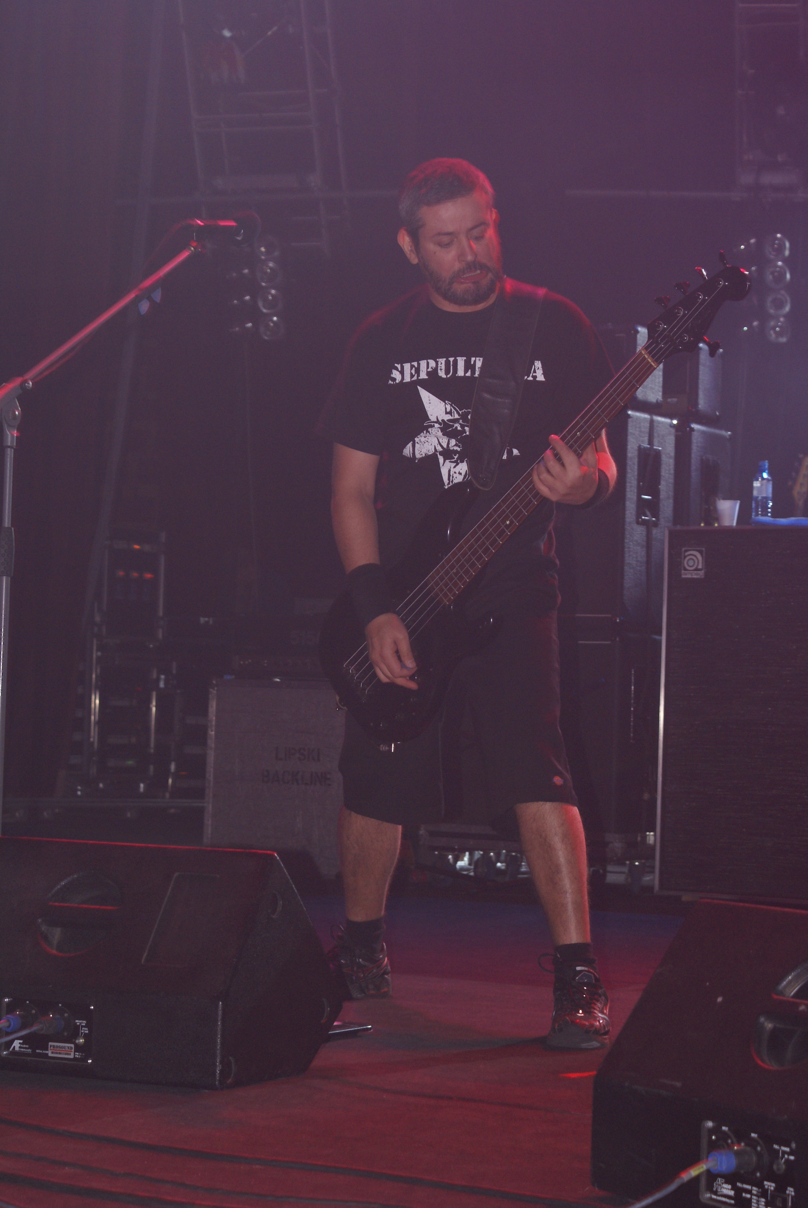 Paulo Xisto Pinto Junior from Sepultura during Metalmania 2007 festival